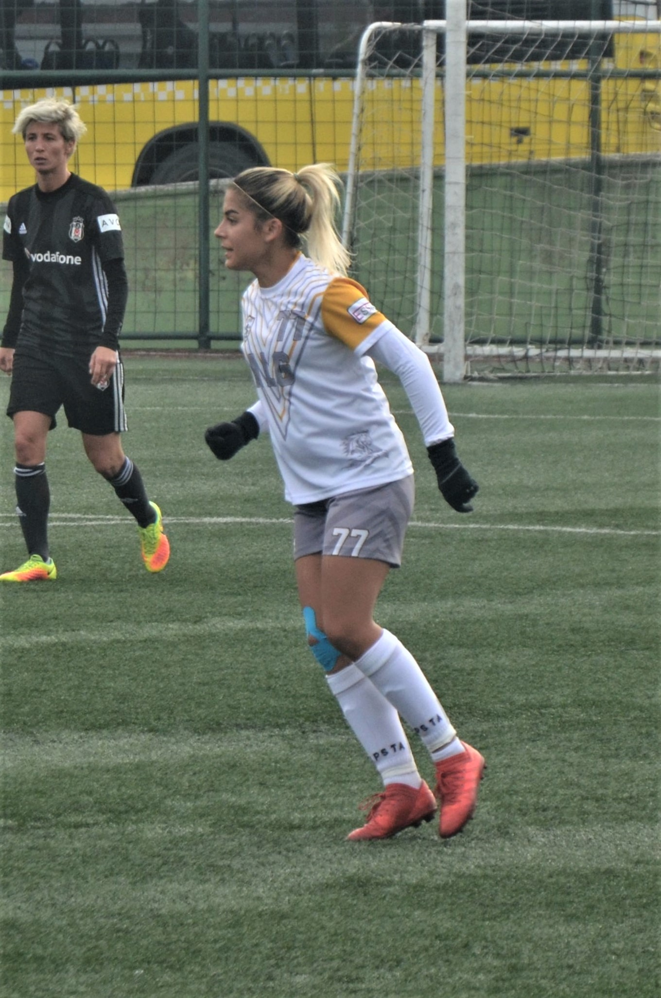 Sevgi Çınar (white/lila) of ALG Spor in the 2018-19 Turkish Women's First Keague.